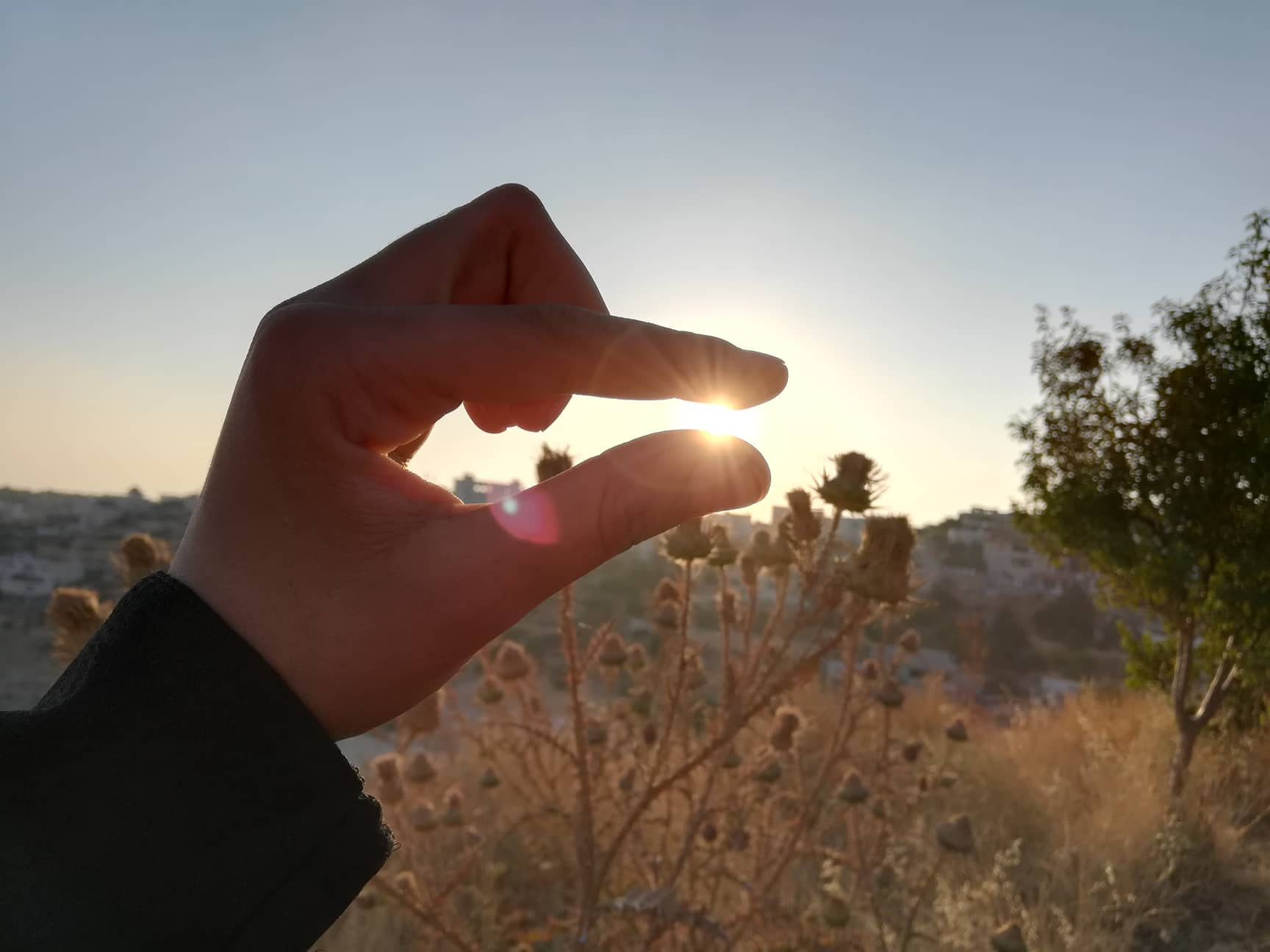 Morning sun in the mountains of Palestine